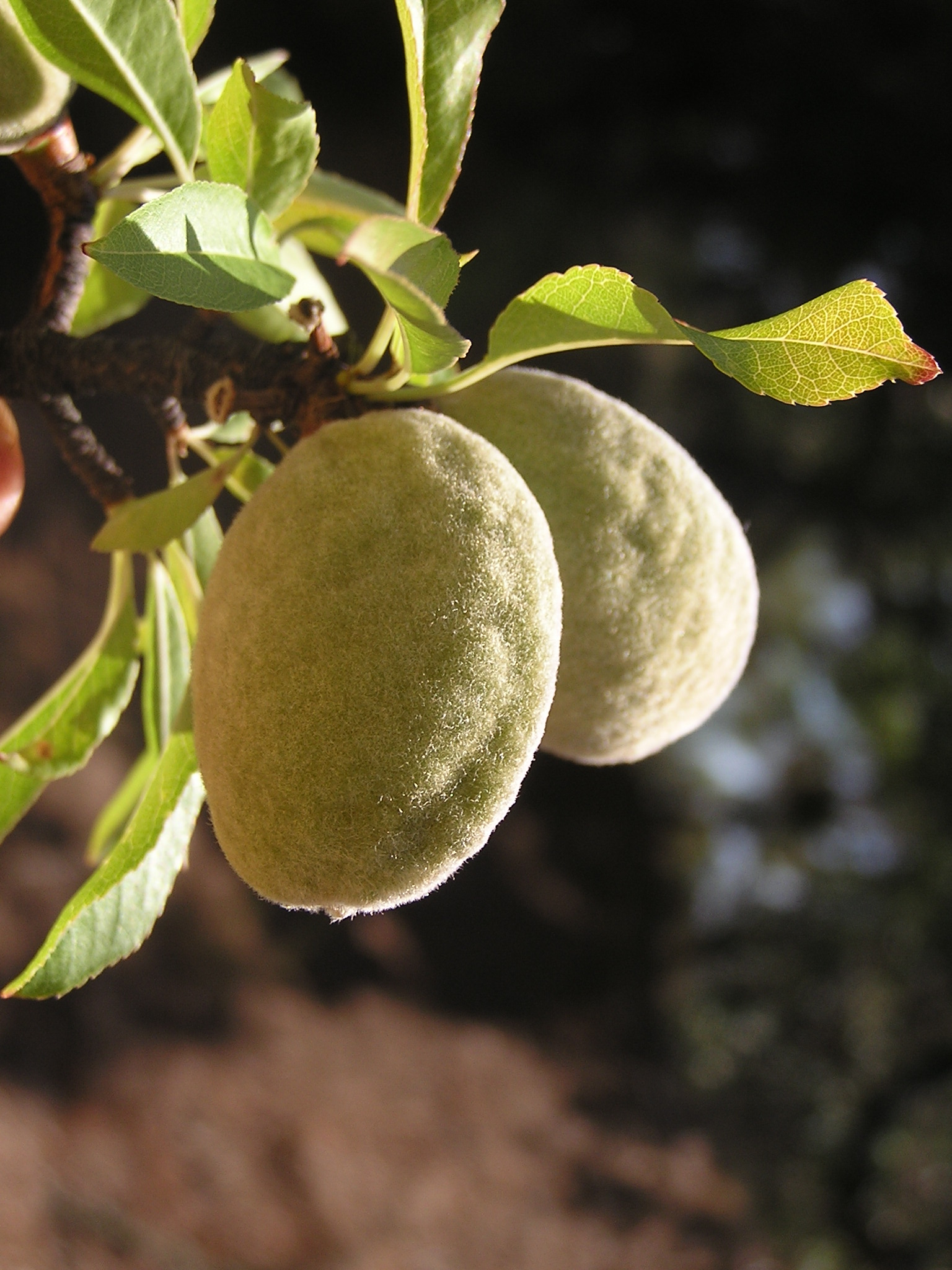 Prunus dulcis fruit